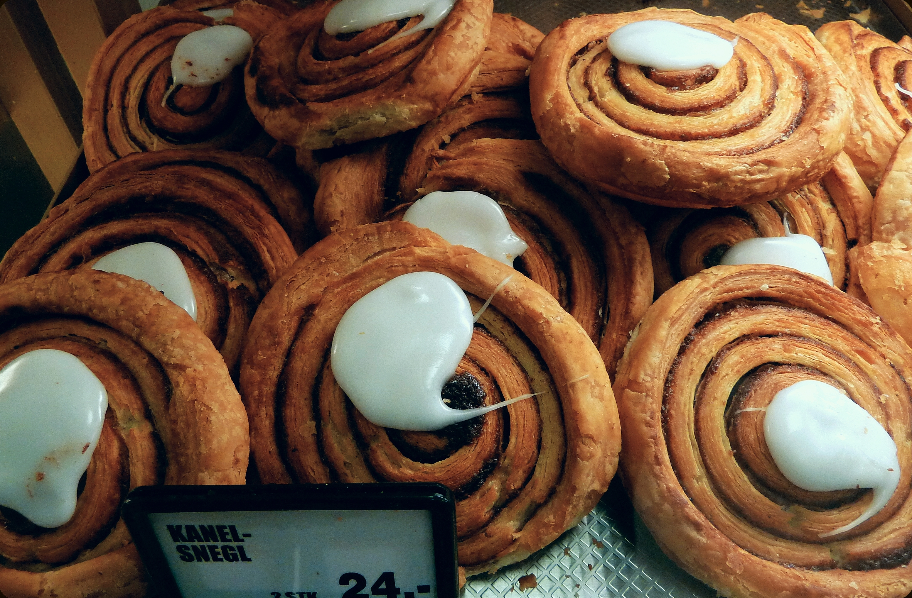 A cinnamon snail (also cinnamon bun, cinnamon swirl and cinnamon roll) is a sweet roll served commonly in Northern Europe and North America. Its primary ingredients are flour, sugar, cooking oil or butter, and cinnamon, which provide a robust and sweet flavor.